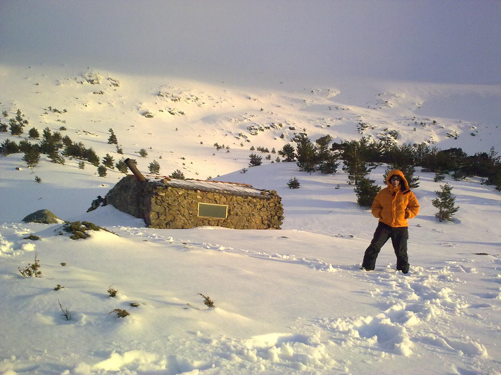 Majada Hambrienta hut (San Ildefonso, Segovia, Spain) in winter